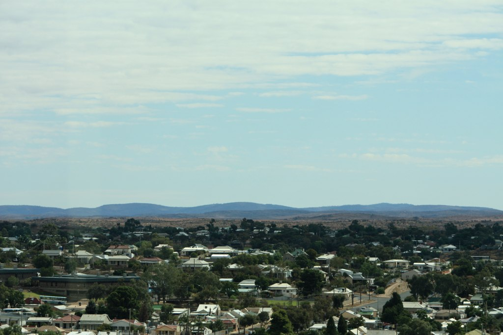 View of Broken Hill from Broken Earth Cafe on the Line of Lode in Broken Hill